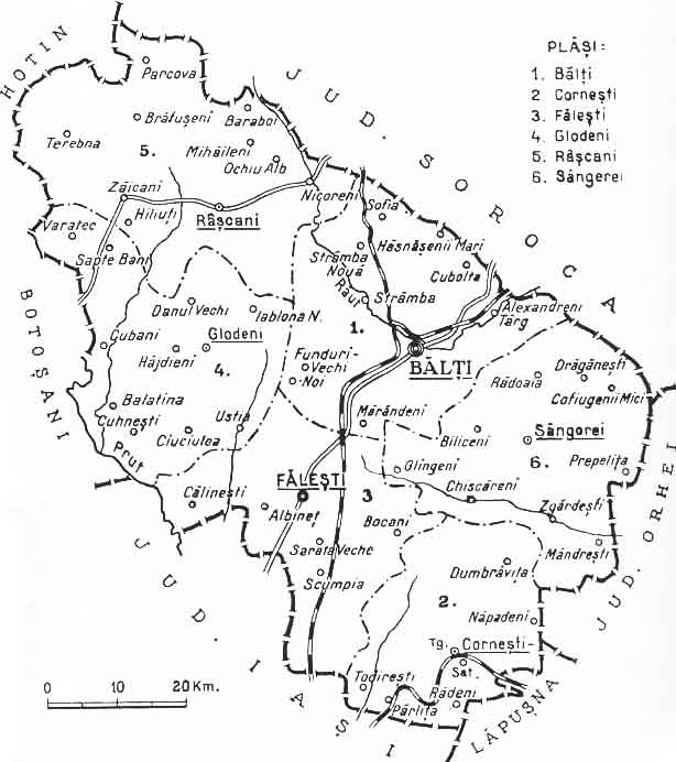 Map of Bălți interwar county, Kingdom of Romania (1938).